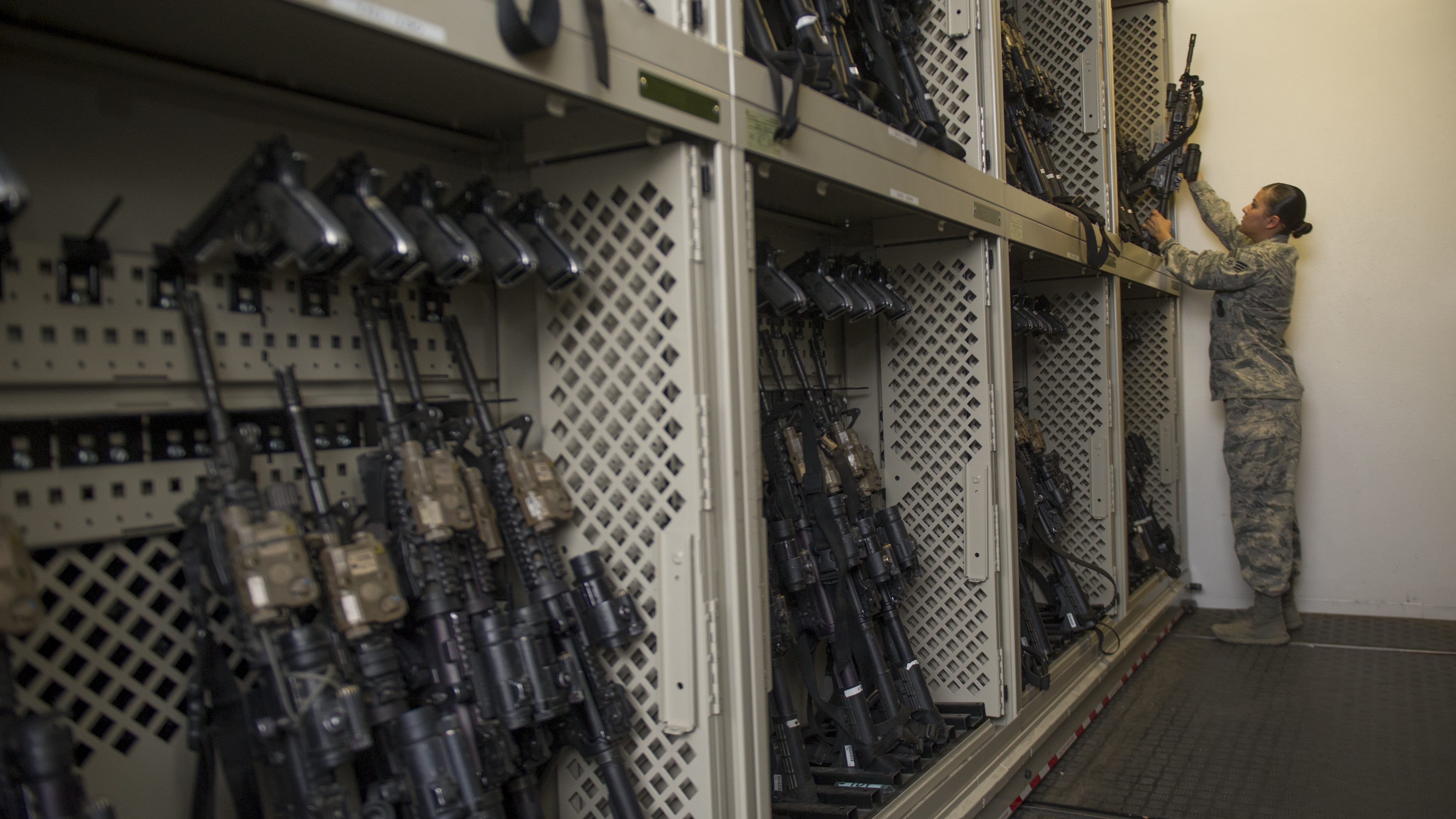 Senior Airman Alexandra Haytasingh, 49th Security Forces Squadron assistant noncommissioned officer in charge of the armory, returns an M4 carbine to the rack at Holloman Air Force Base, N.M., April 2, 2015. Armory personnel maintain and house weapon systems for both on and off-duty SF personnel, as well as store personally owned weapons and ammunition for residents living on base who have registered their weapon through SF. Currently, the armory houses more than 90 personally owned weapons and their accompanying ammunition. (U.S. Air Force photo by Airman 1st Class Aaron Montoya / Released)